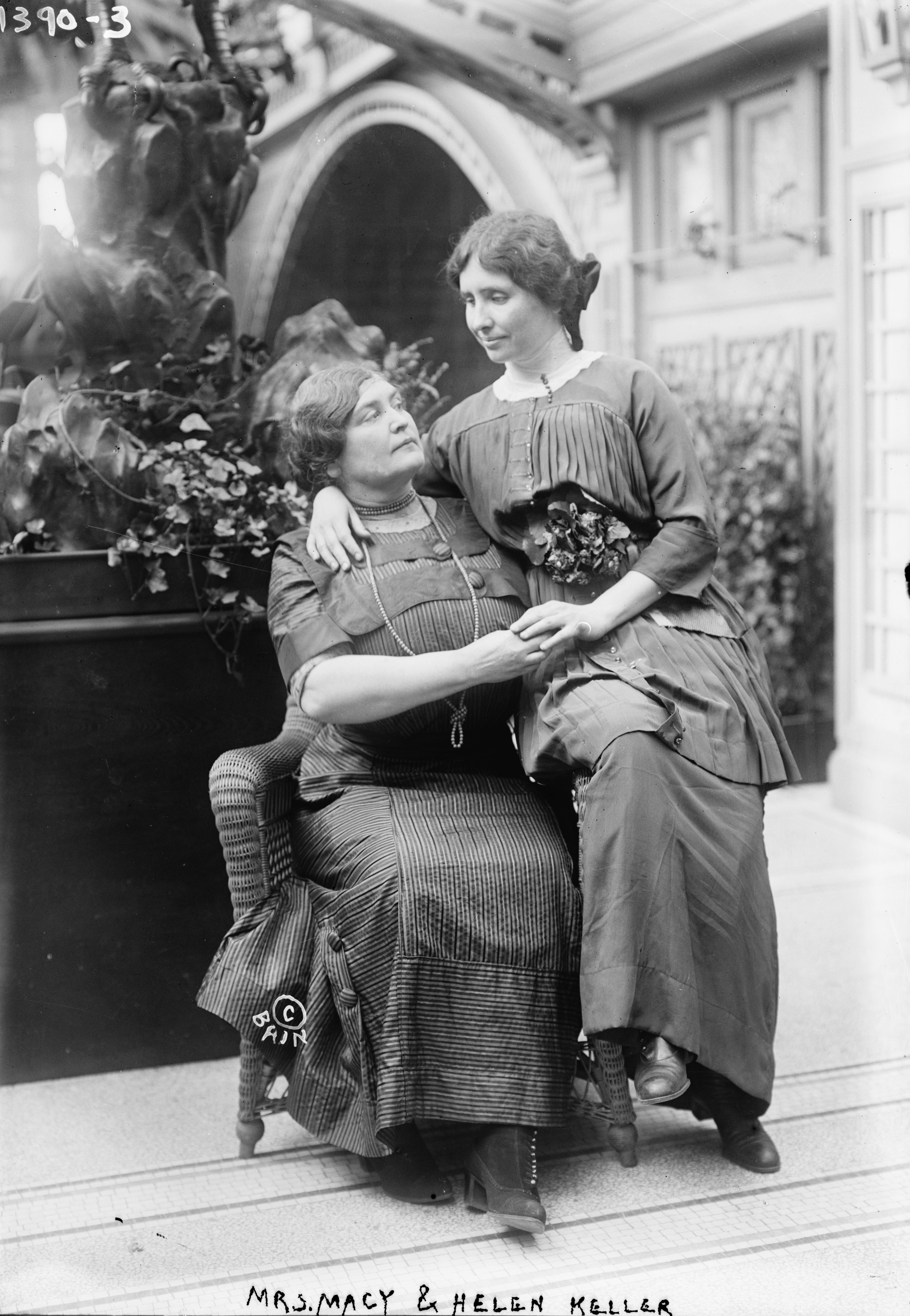 Helen Keller with Anne Sullivan